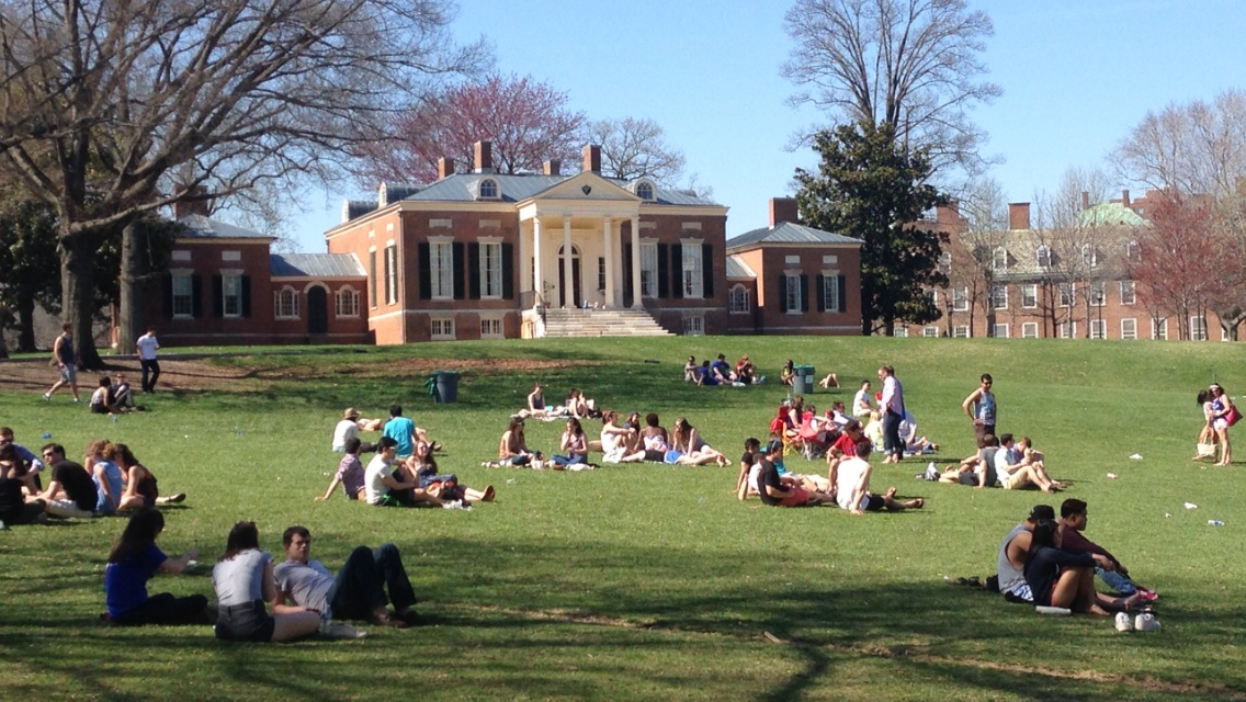 "The Beach" area of the Johns Hopkins University Homewood campus, with students in foreground and Homewood House in back.